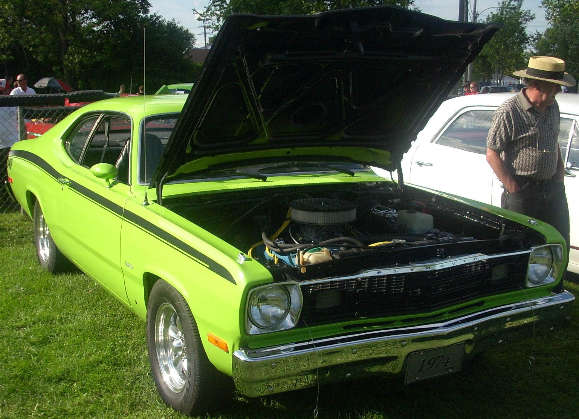 1974 Plymouth Duster photographed at the Rassemblement Rigaud Car Show.